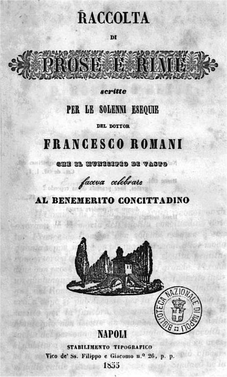 Frontespizio tratto da Internet Archive